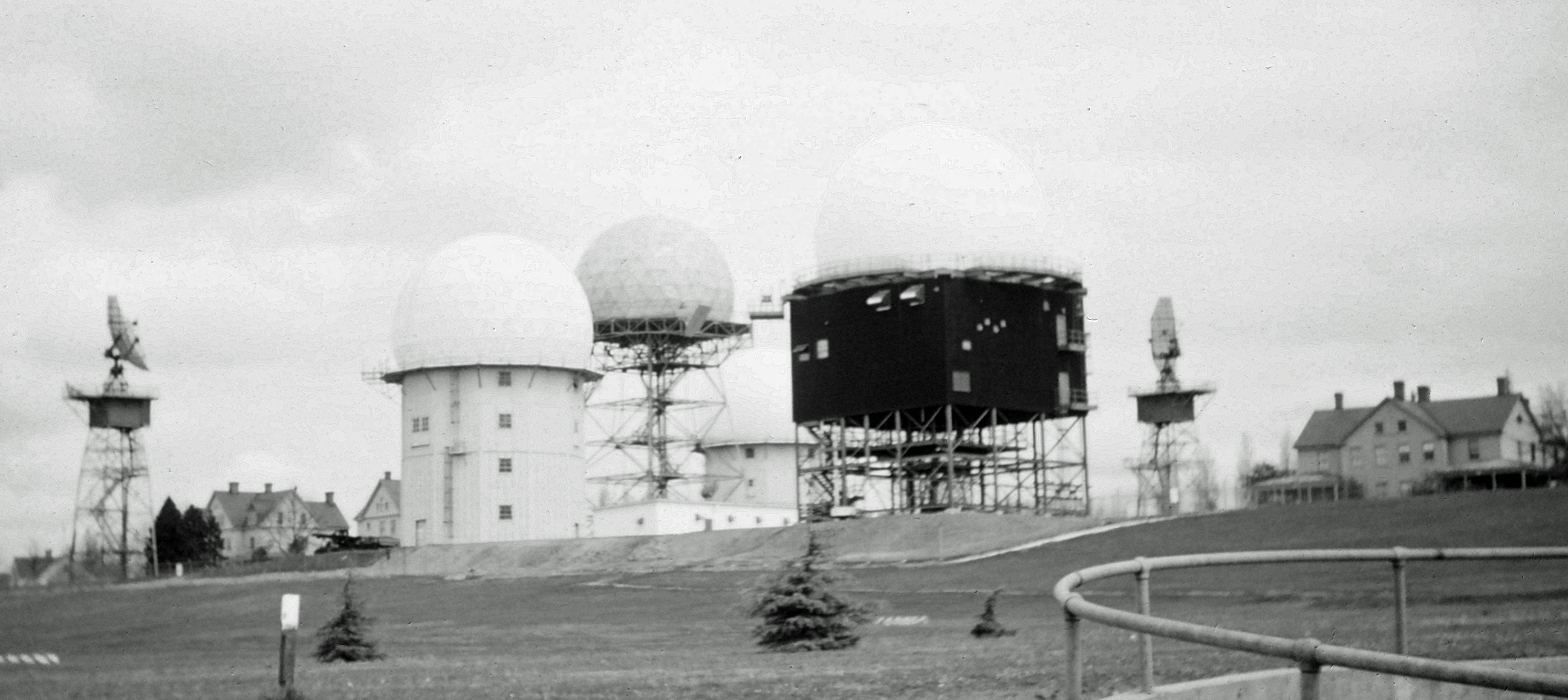 A multi-agency radar site located at Fort Lawton, Washington, circa 1962-63. The radome in the center with the uncovered steel structure is a search radar owned and maintained by the Federal Aviation Administration. The two radar systems on the outside of the photo, without radomes, are US Army FPS-6 height-finders. The two radars with radomes and white covered structure beneath (one near, the other in the back) are US Air Force FPS-6A height-finders. The radar with a white radome and dark covered structure beneath is a US Air Force FPS-26A height-finder, under construction in this photo.